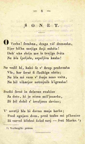 Scan of the text of O Vrba, a sonnet by France Prešeren, written in 1832 and published in the 4th volume of the almanach Kranjska čbelica in July 1834.